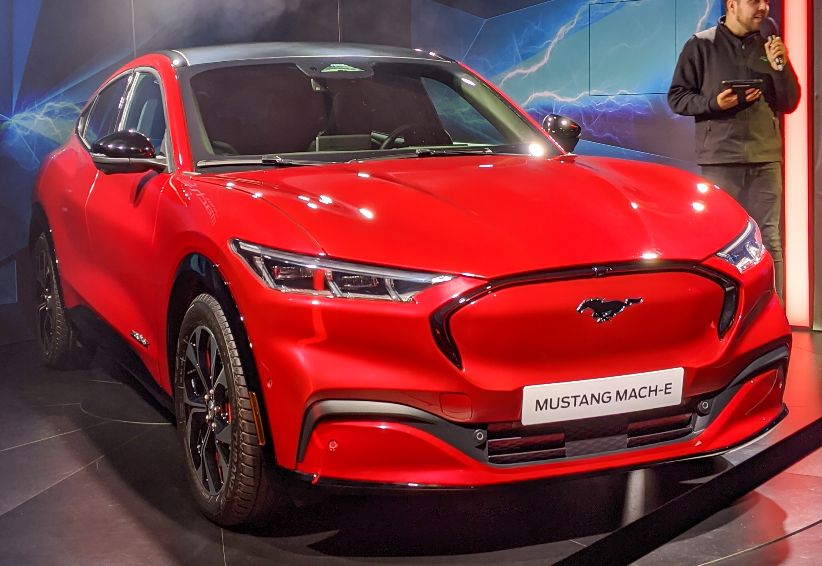 2020 Ford Mustang Mach-E taken at the 2020 London Classic Car Show, Olympia London